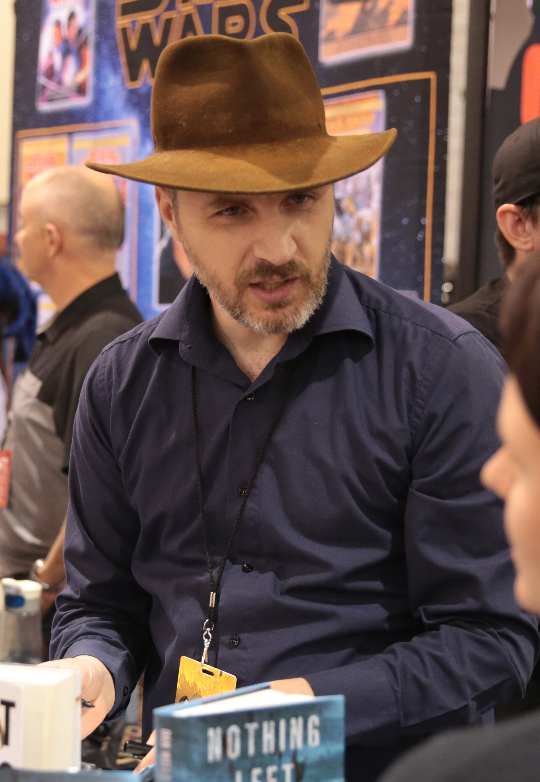 Dan Wells speaking at the 2017 Phoenix Comicon in Phoenix, Arizona.